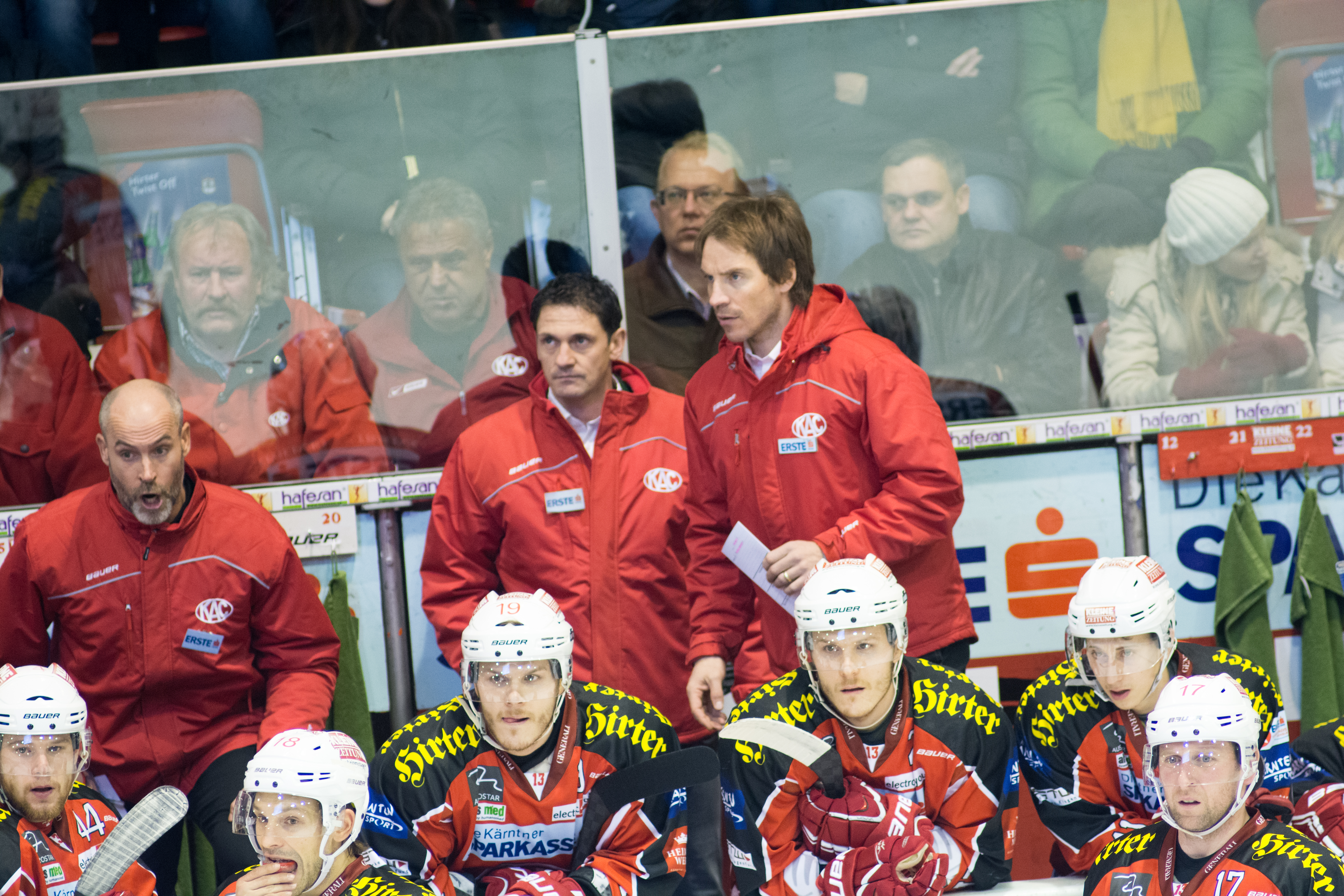 26.12.2013,Messehalle 5 Celovec, AUT, EBEL, 58. Runde, EC KAC vs. EC VSV, im Bild // frostworx Pictures © 2013, PhotoCredit: frostworx / Alex Micheu